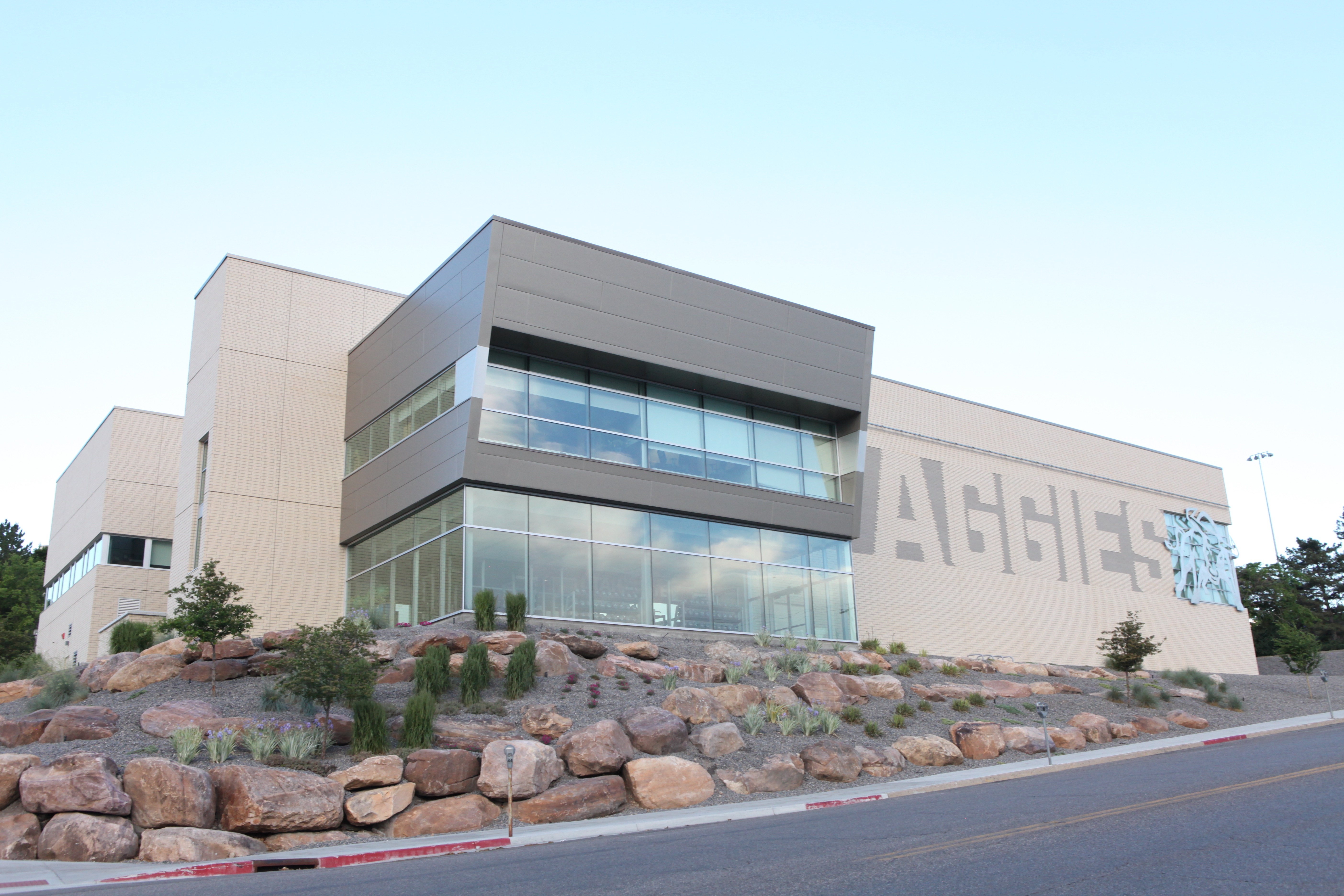 This is a photo of Utah State University's Wayne Estes Center.